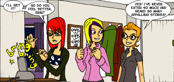 Bring bring onomatopoeic sound effect for a ringing telephone as depicted in webcomic Scary Go Round. Copyright and attribution: John Allison. This sample shows the top coloured rectangular panel drawn in Ligne claire style and with yellow inked onomatopoeic text without balloons depicting a sound effect.